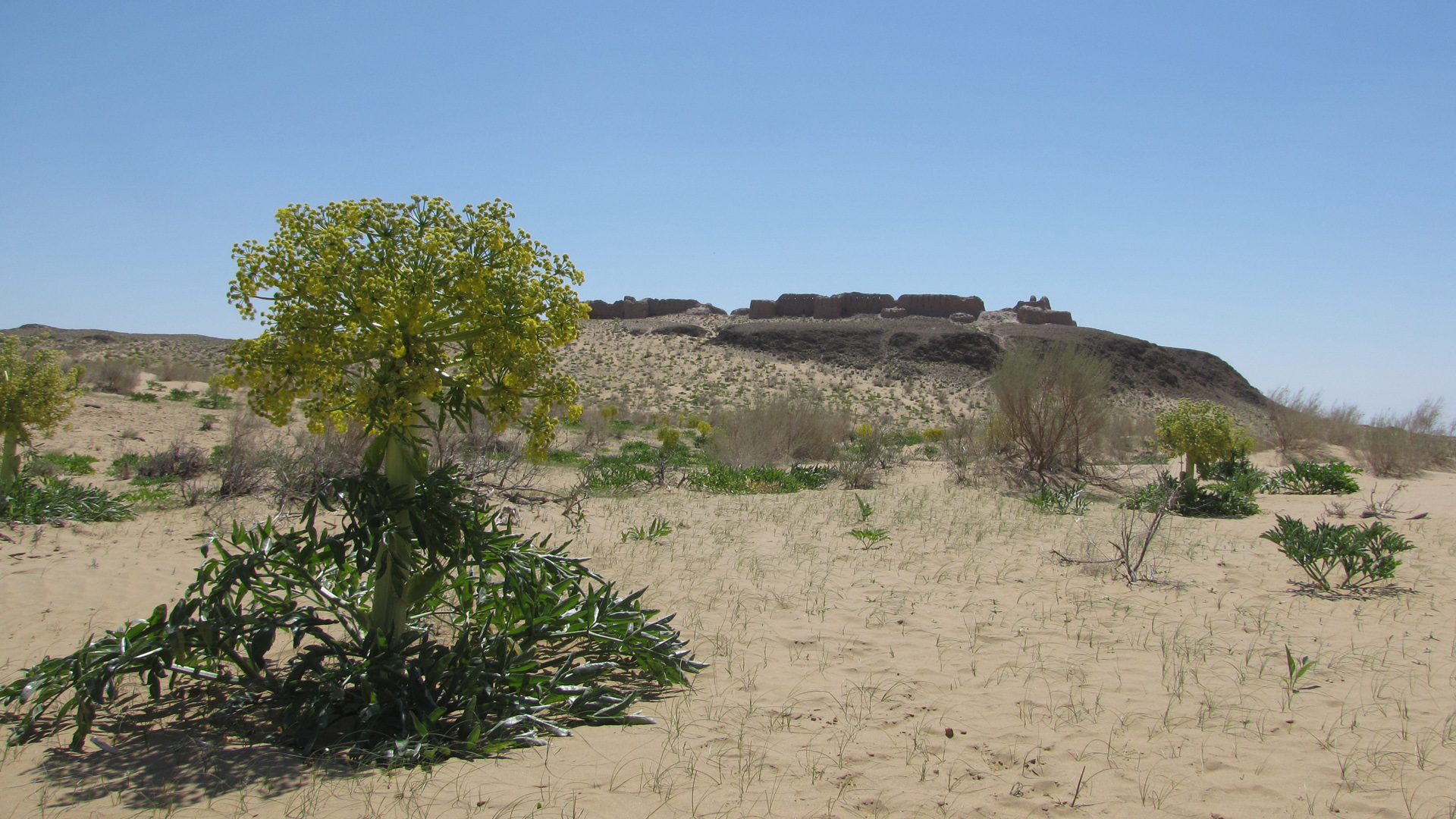 Ferula assa-foetida near the fortress of Ayaz Kala in the republic of Karakalpakstan and the Kyzyl Kum desert in Uzbekistan.